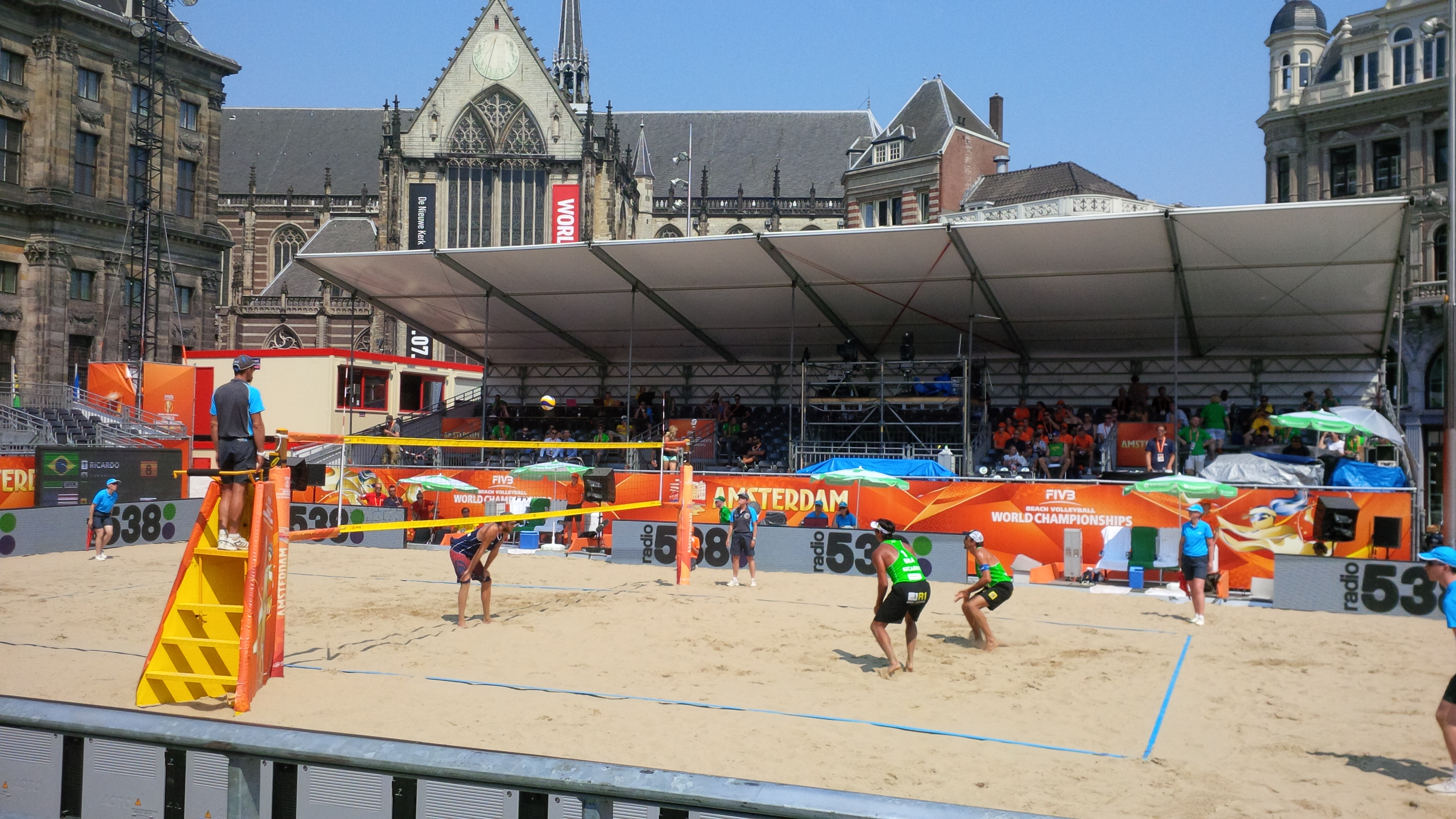 2015 Beach Volleyball WC, round of 16. Emanuel Rego and Ricardo Santos (Brazil) versus Nicholas Lucena and Theo Brunner (USA) at Dam Square, Amsterdam, the Netherlands. Lucena not visible, he's behind the referee.